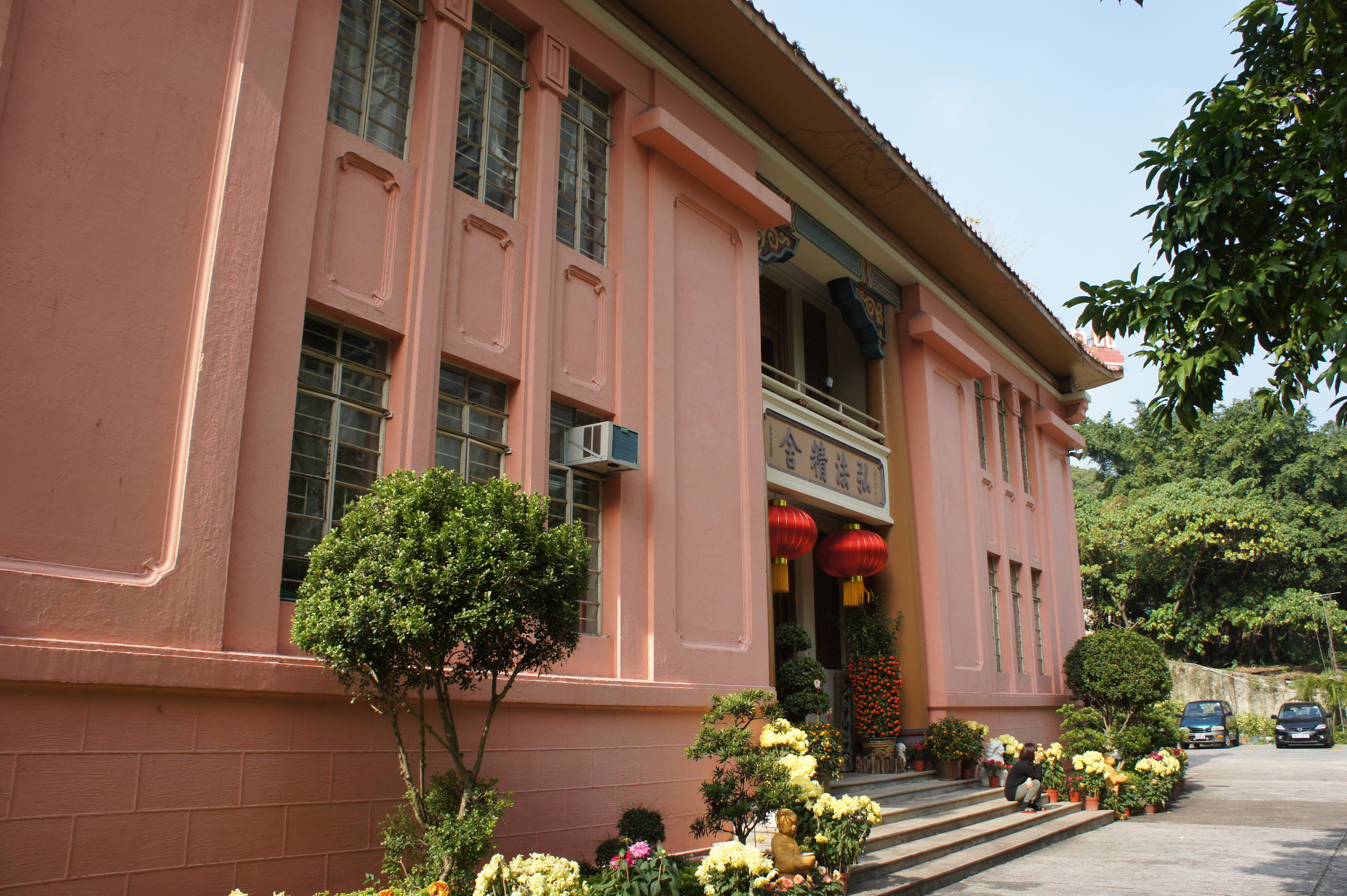 Tung Lin Kok Yuen Wang Fat Ching She (No.8, Fat Yip Lane, 9½ Milestone, Castle Peak Road, Tsuen Wan, Hong Kong.)